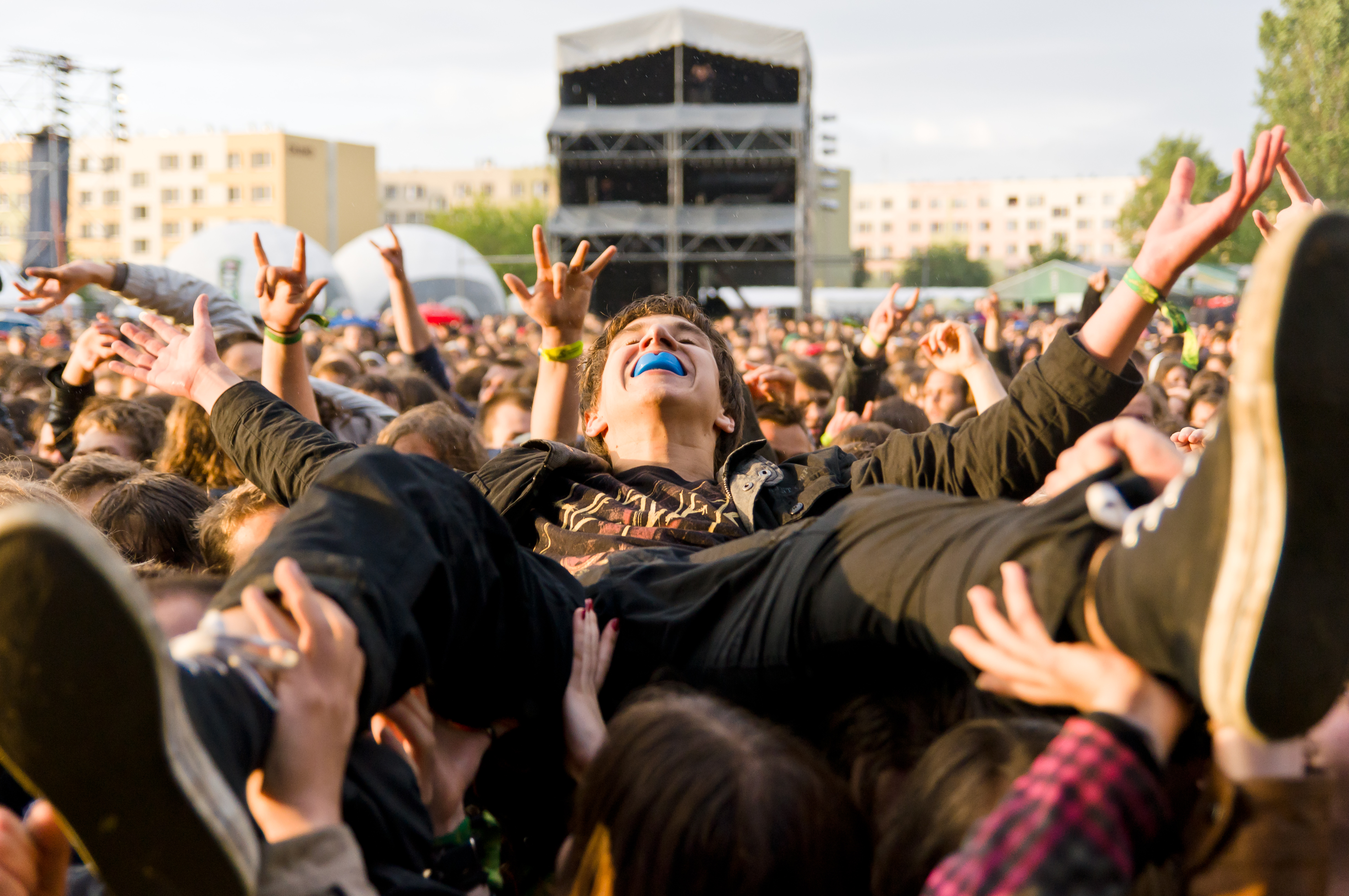 Crowd surfing during Luxtorpeda concert. Ursynalia 2012, Warsaw.